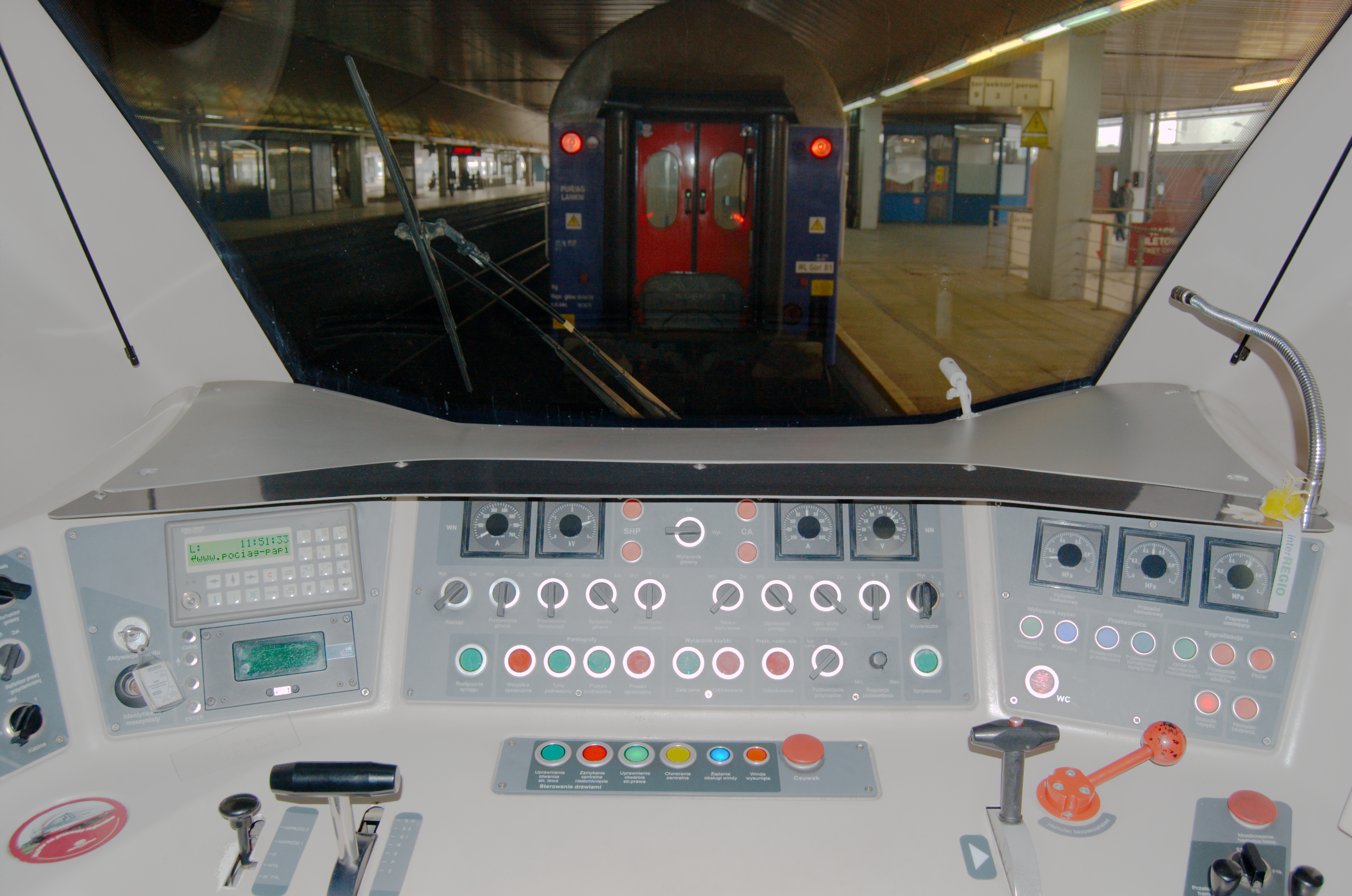 Engineer's cabin of Pope Train EN61